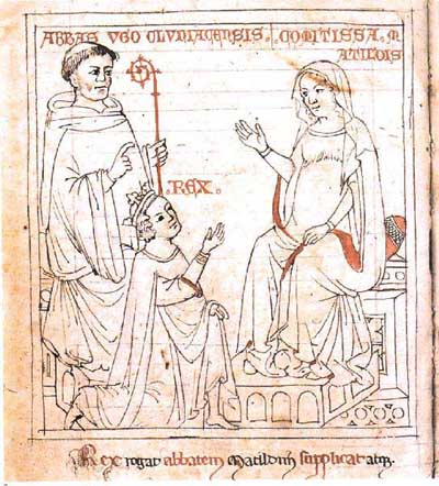 Picture from Donizo's manuscript Acta Comitissae Mathildis, XIV century. Reggio Emilia, Biblioteca Panizzi